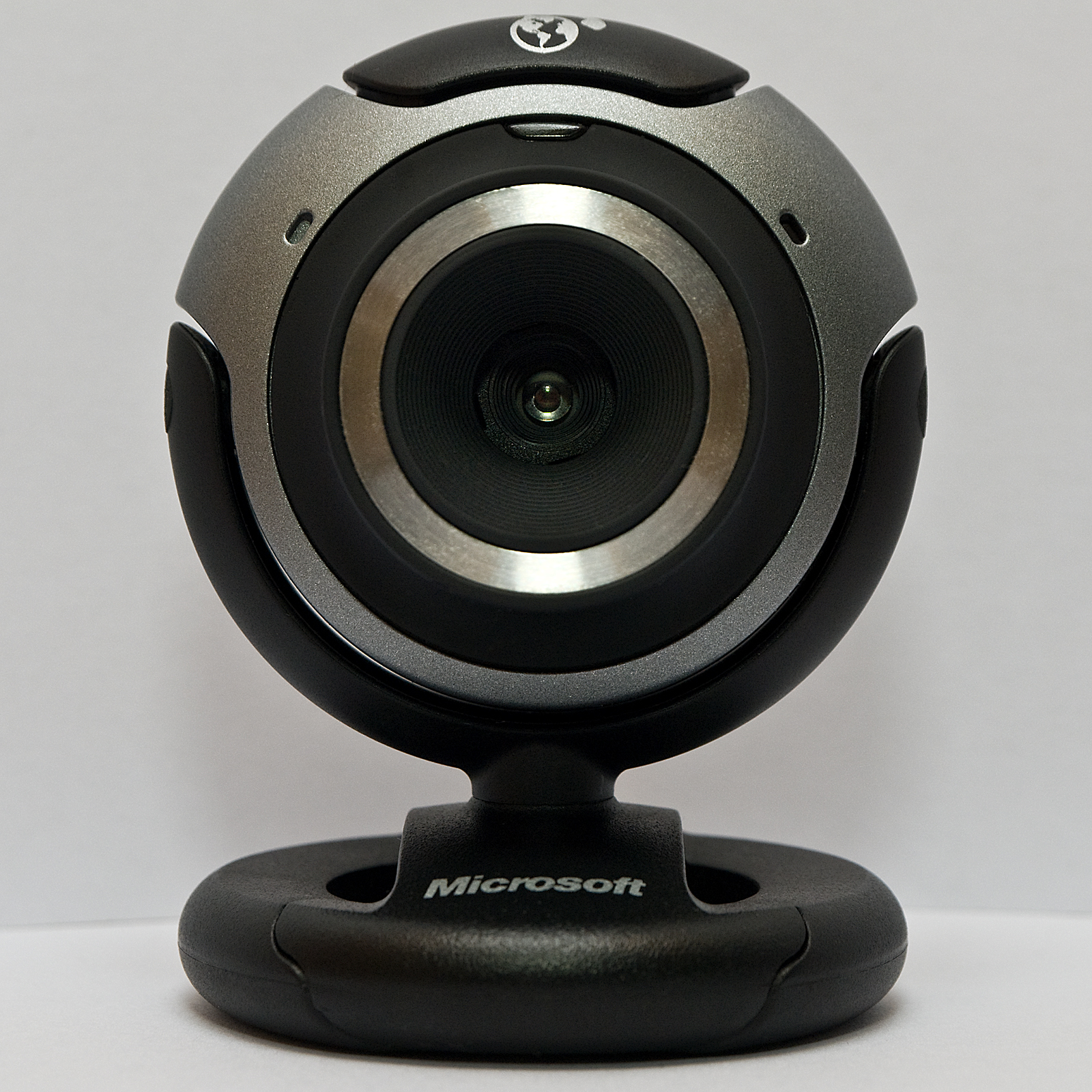 Photograph of a Microsoft LifeCam VX-3000